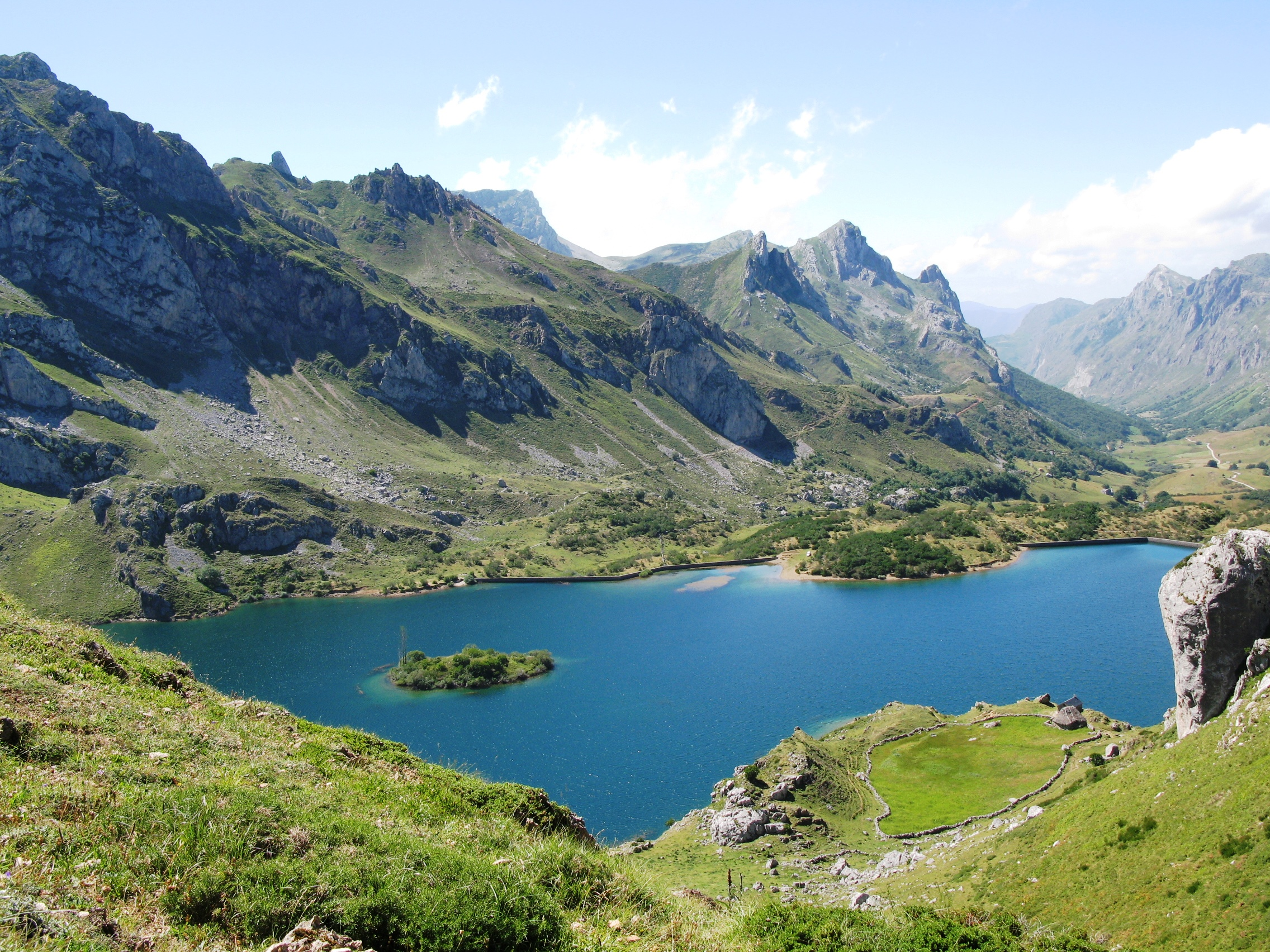 This is a photography of a Special Area of Conservation in Spain with the ID: ES0000054. Natura2000 entry, EEA entry